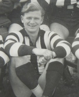 Photograph of George Nelson from 1944-1945